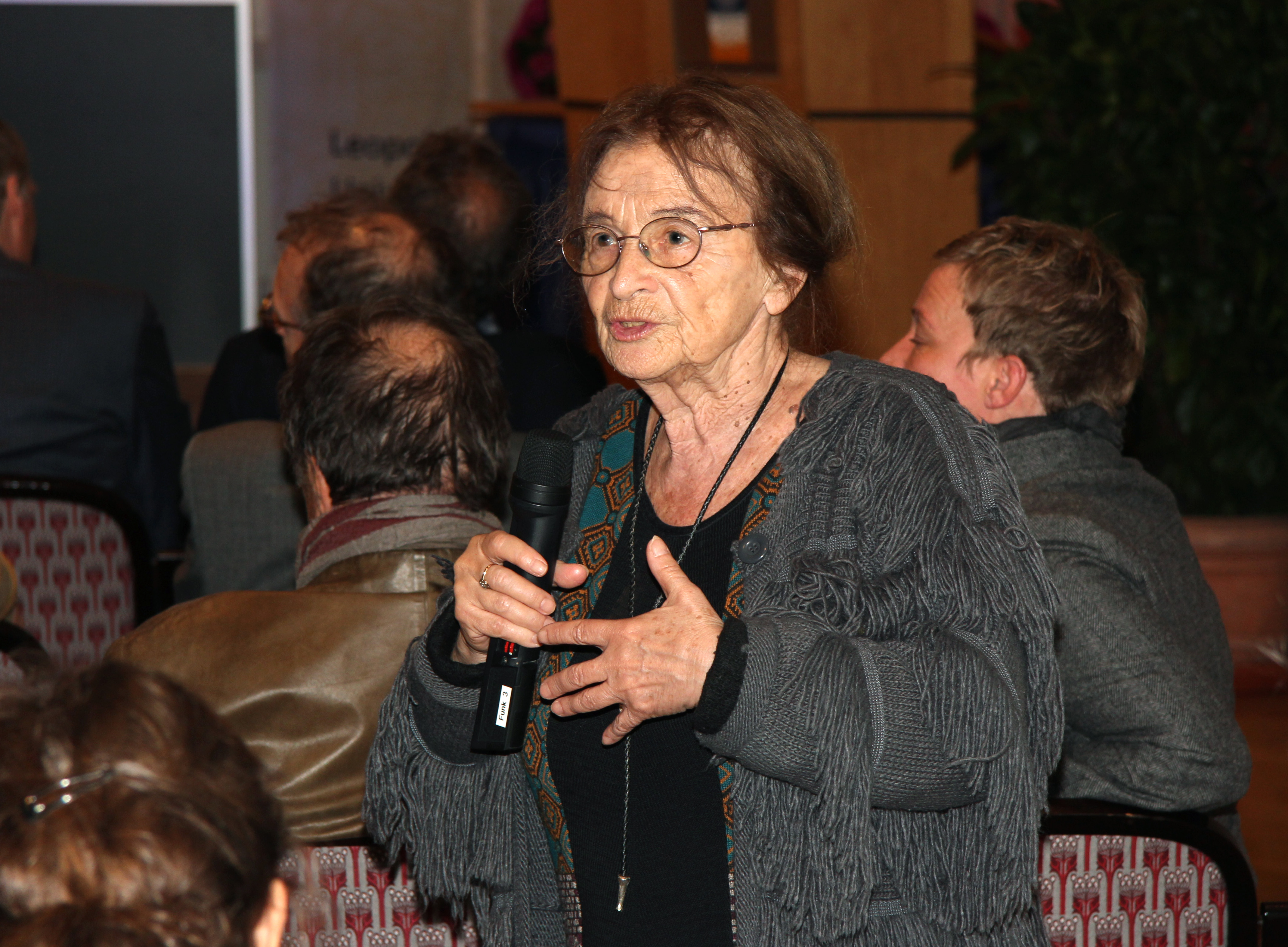 Philosopher Ágnes Heller at the University of Innsbruck, Austria